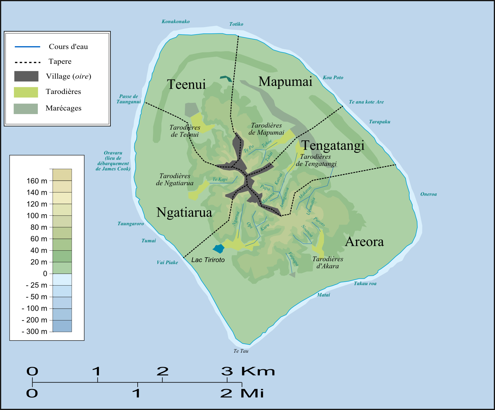 Carte d'Atiu (topographie et tapere)/Map of Atiu (topography and tapere)